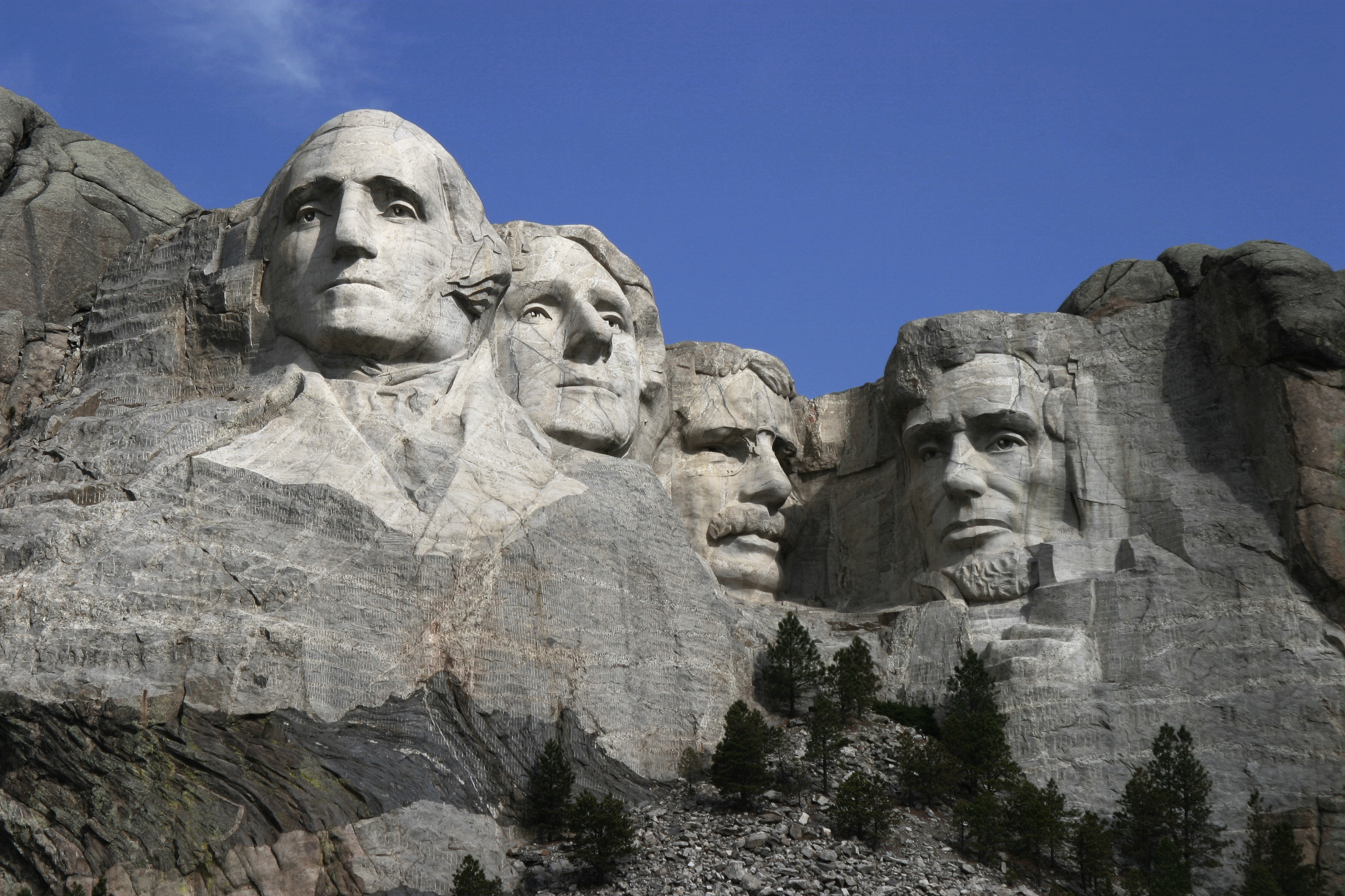 The Mount Rushmore Monument as seen from the viewing plaza.